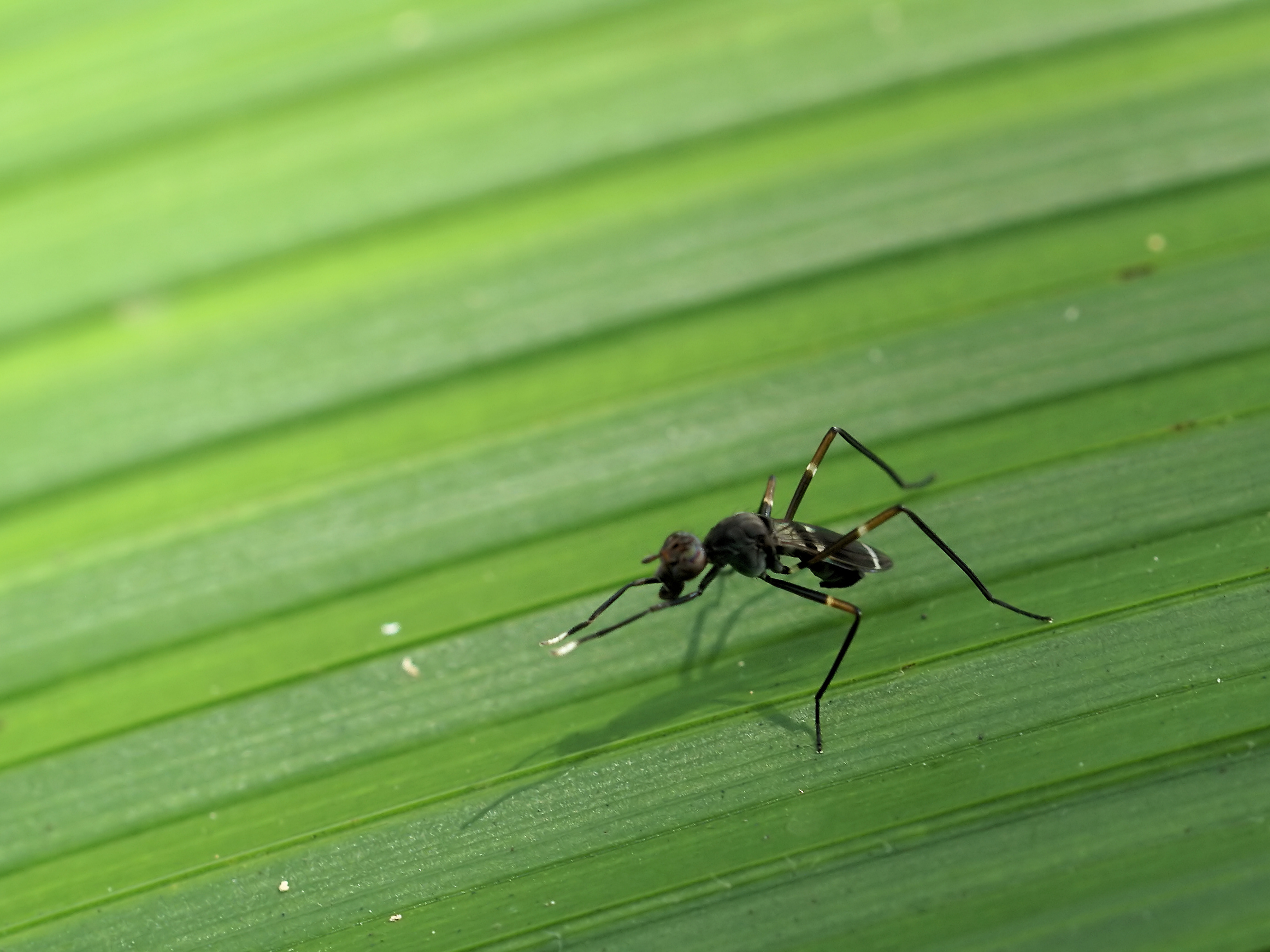 Micropezid fly at La Garita, Alajuela, Costa Rica.Identification by Morgan D. Jackson, University of Guelph, Canada.